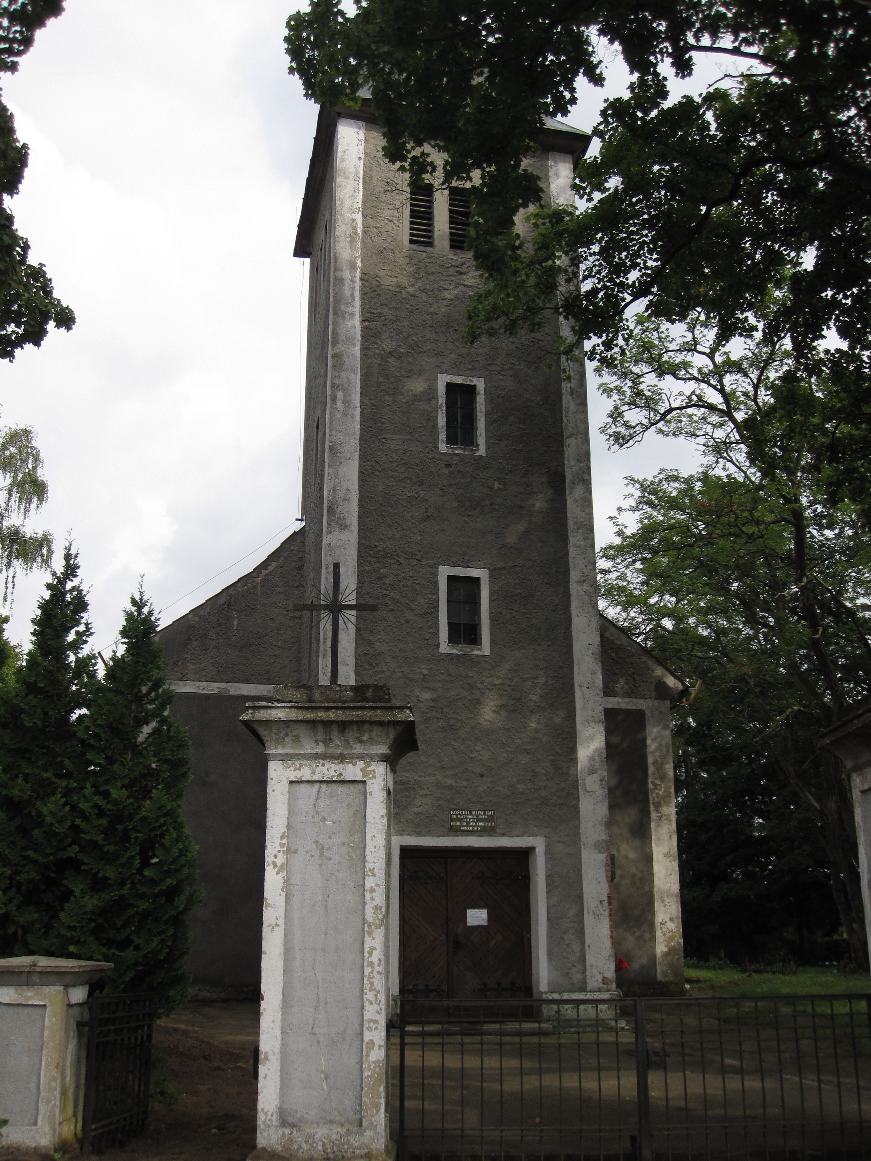 Maximilian Kolbe church in Kurki